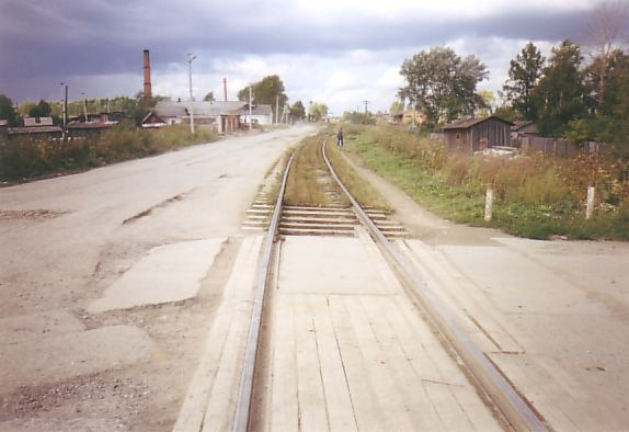 Vohtoga, Gryazovetsky District, Vologda Oblast